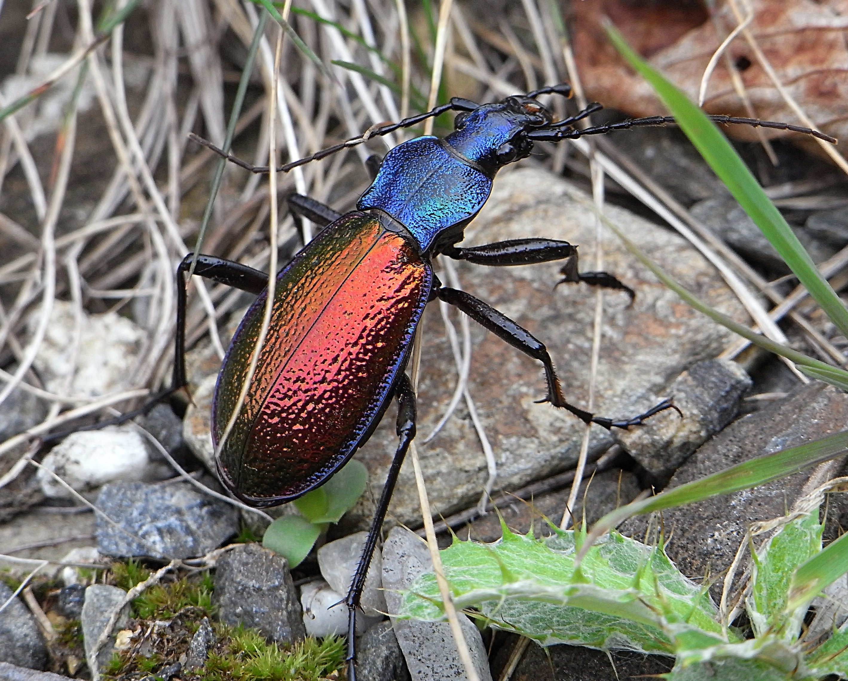 Carabus hispanus Ricoh R8